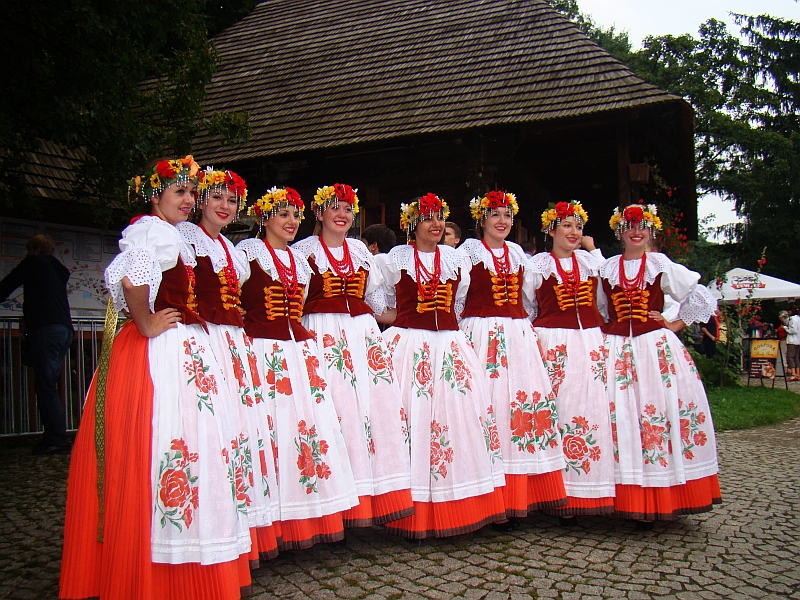 Folk dancers of Polish comunity from Czech.